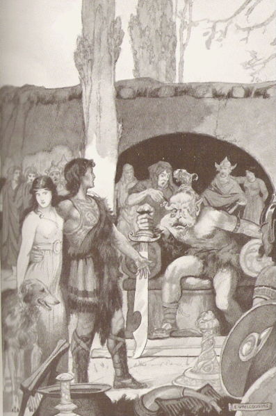 The Treasures of Britain Kulhwch has audience with Hawthorn, chief of giants (Ysbaddaden Bencawr)